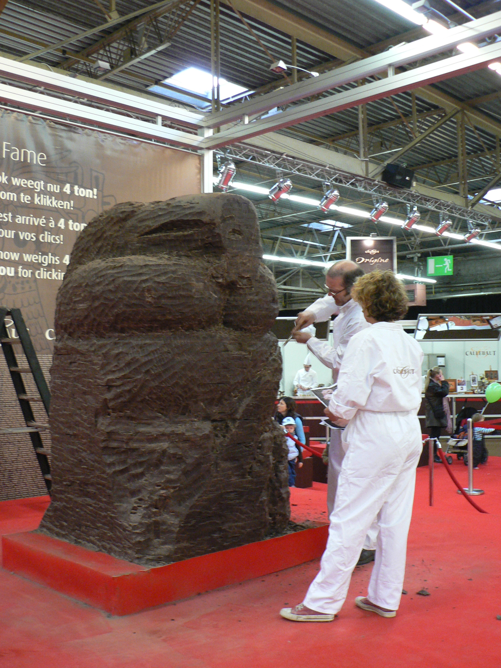 4000 kg Quetzalcoatl sculpture Callebaut (sculpturers Bart Leenhouwen et Sophie Martens), Choco-Laté chocolate event (Choco-Late.be), Brugge 2007, Belgium